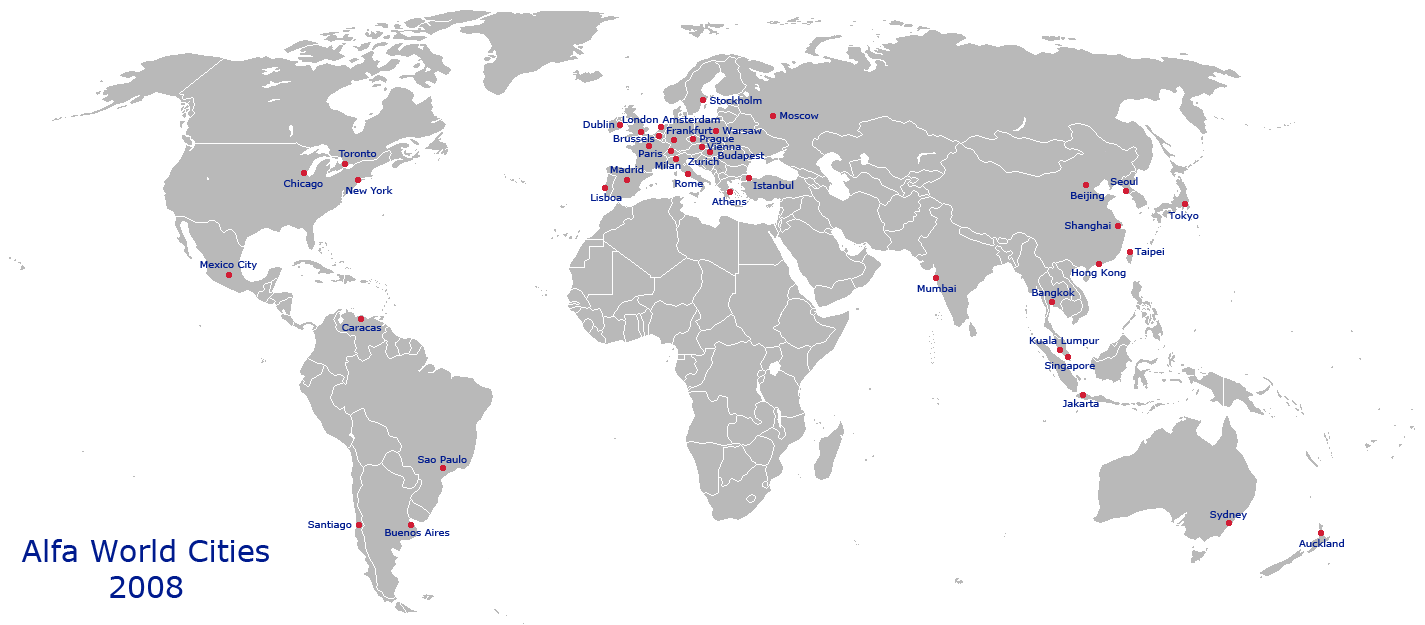 Alpha World Cities in 2008